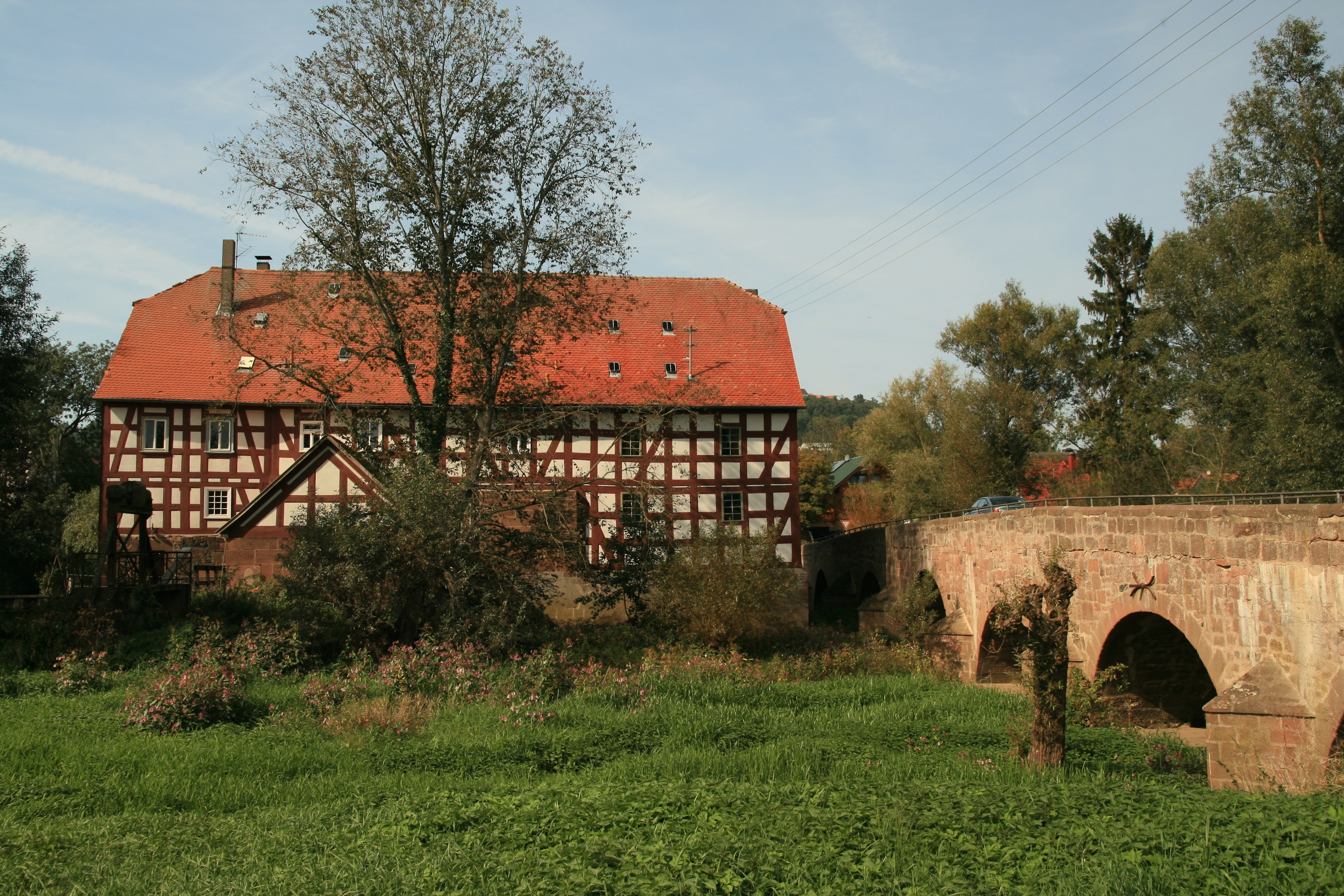 'Brücker Mühle', historical water mill at the river Ohm near Amöneburg, seen from E.